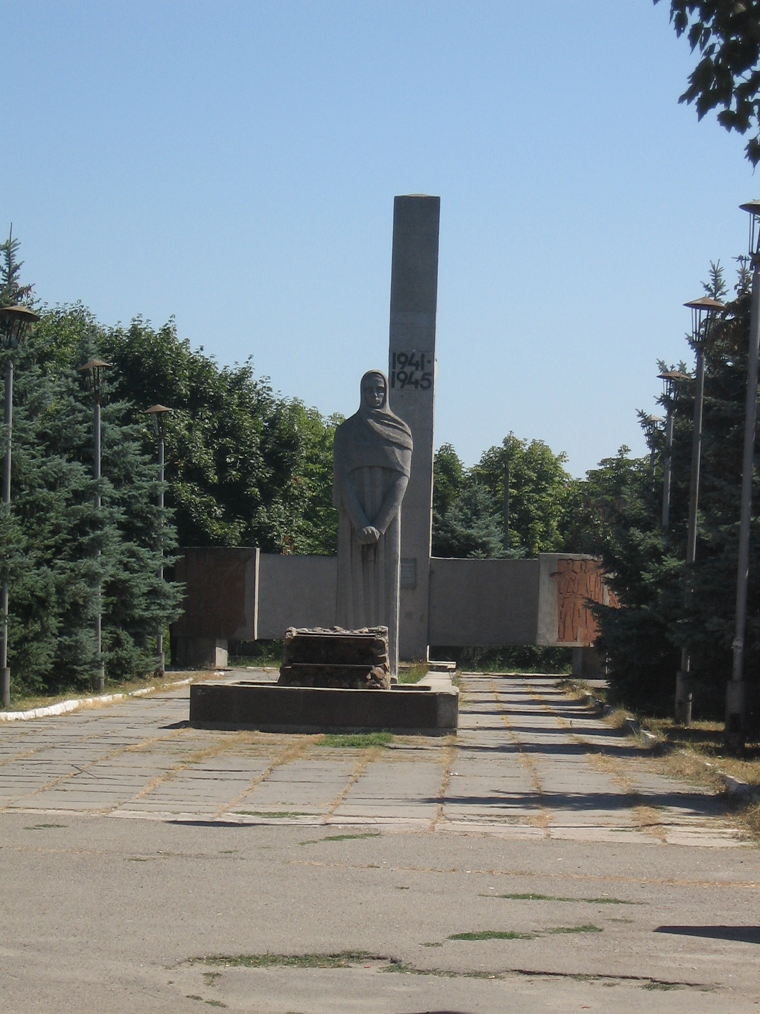 Monument to victims of the Second World war in city of Henichesk; Henichesky Raion, Kherson Oblast, Ukraine